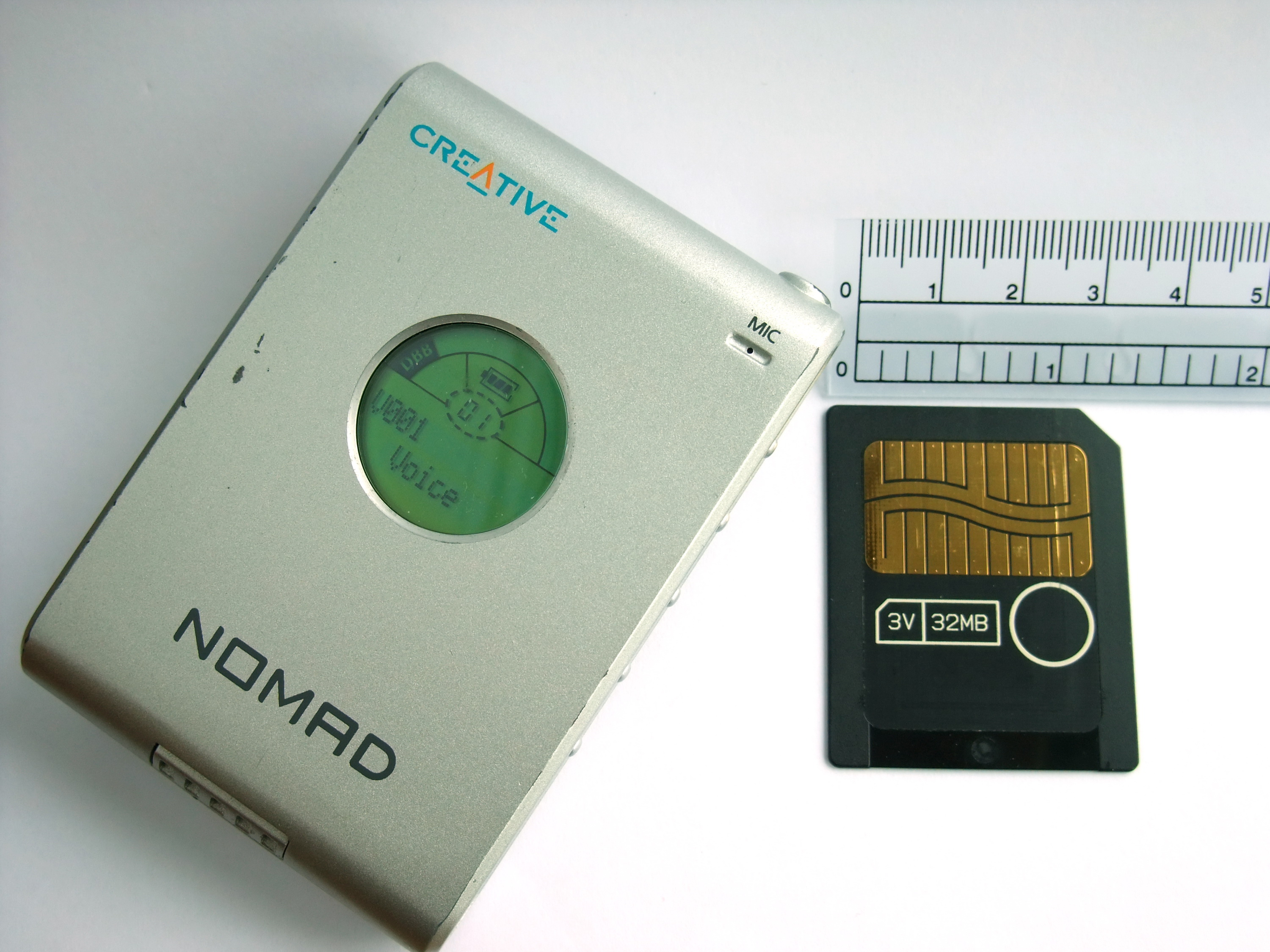 Creative Normad MP3 player. It had 32MB of memory (SmartMedia), FM radio, and voice recording. It was put into the market in 1999.